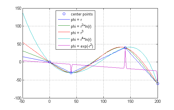 Simple interpolation example of polyharmonic splines demonstrating the effect of scaling of the original points on the interpolation results. The figure demonstrates that scaling of the original points has no influence of polyharmonic splines r^k, some influence on r^k*ln(r) and a large influence on a radial basis function like exp(-k*r^2)